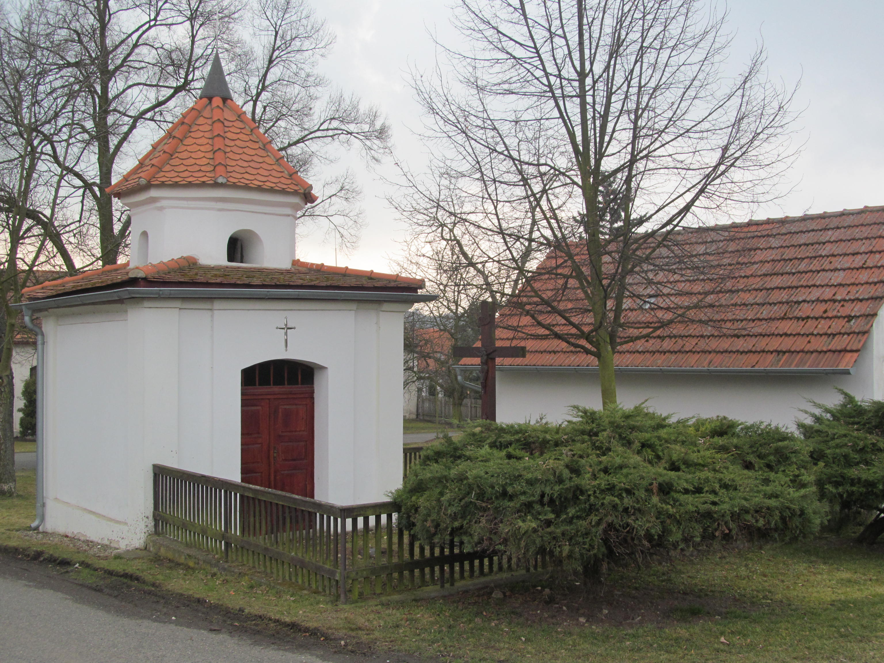 Chapel in Nová Ves